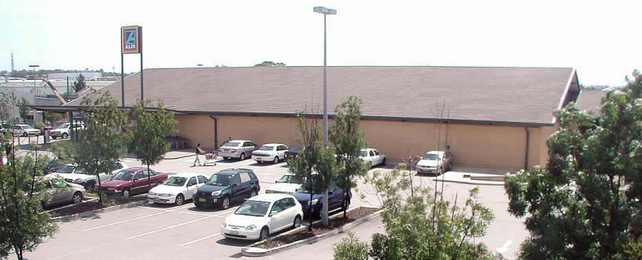 This is a digital photograph of an Aldi store in Arndell Park NSW Australia which opened in 2003. The image was made and edited by me.